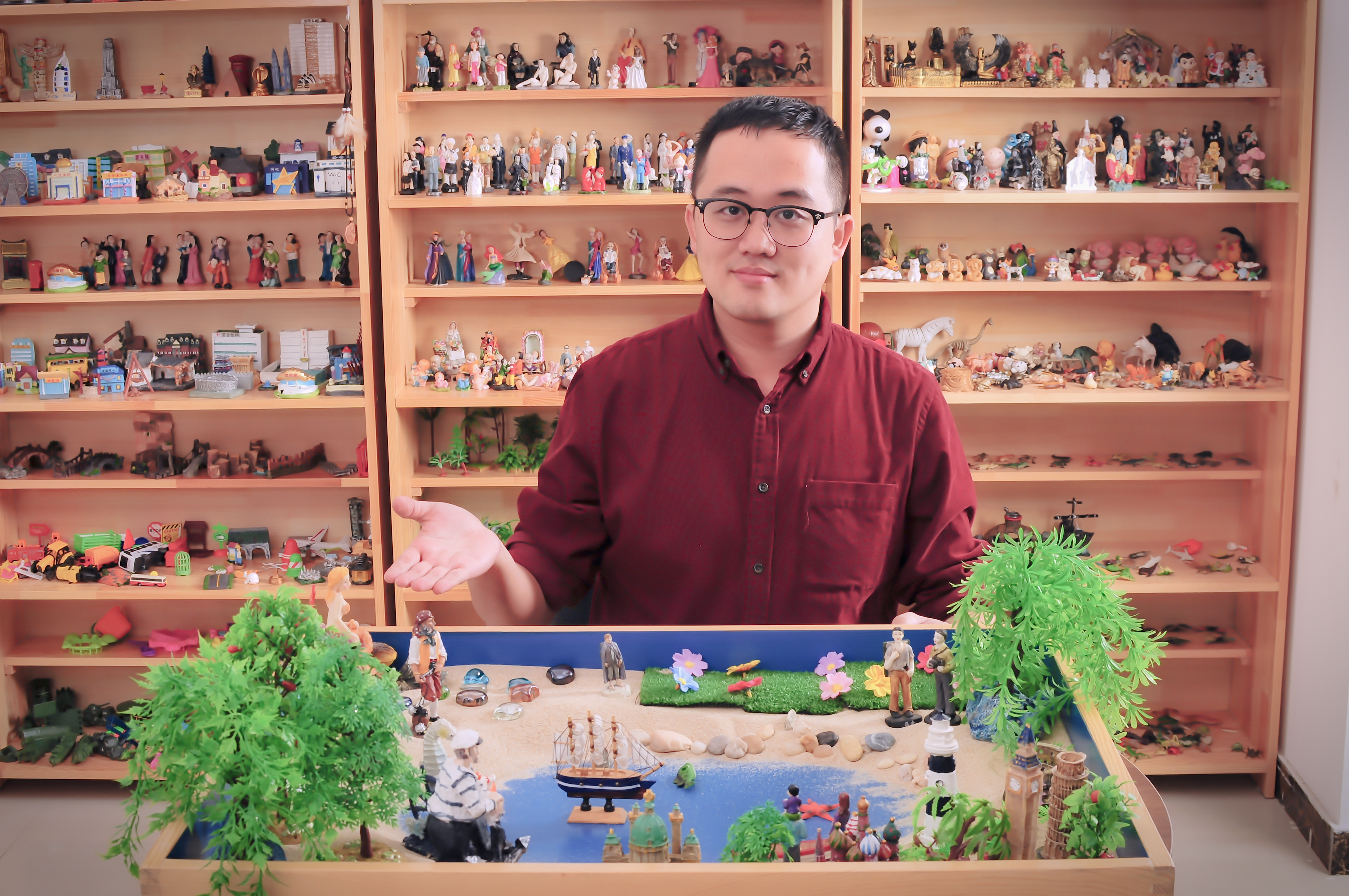 When we go through the door of a sandplay therapy room, we enter a symbolic world. The raw materials of sand and water, the plethora of miniatures from the real and imaginary worlds, all carry symbolic meaning.